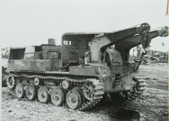 IJA Lumber Sweeper Basso-Ki